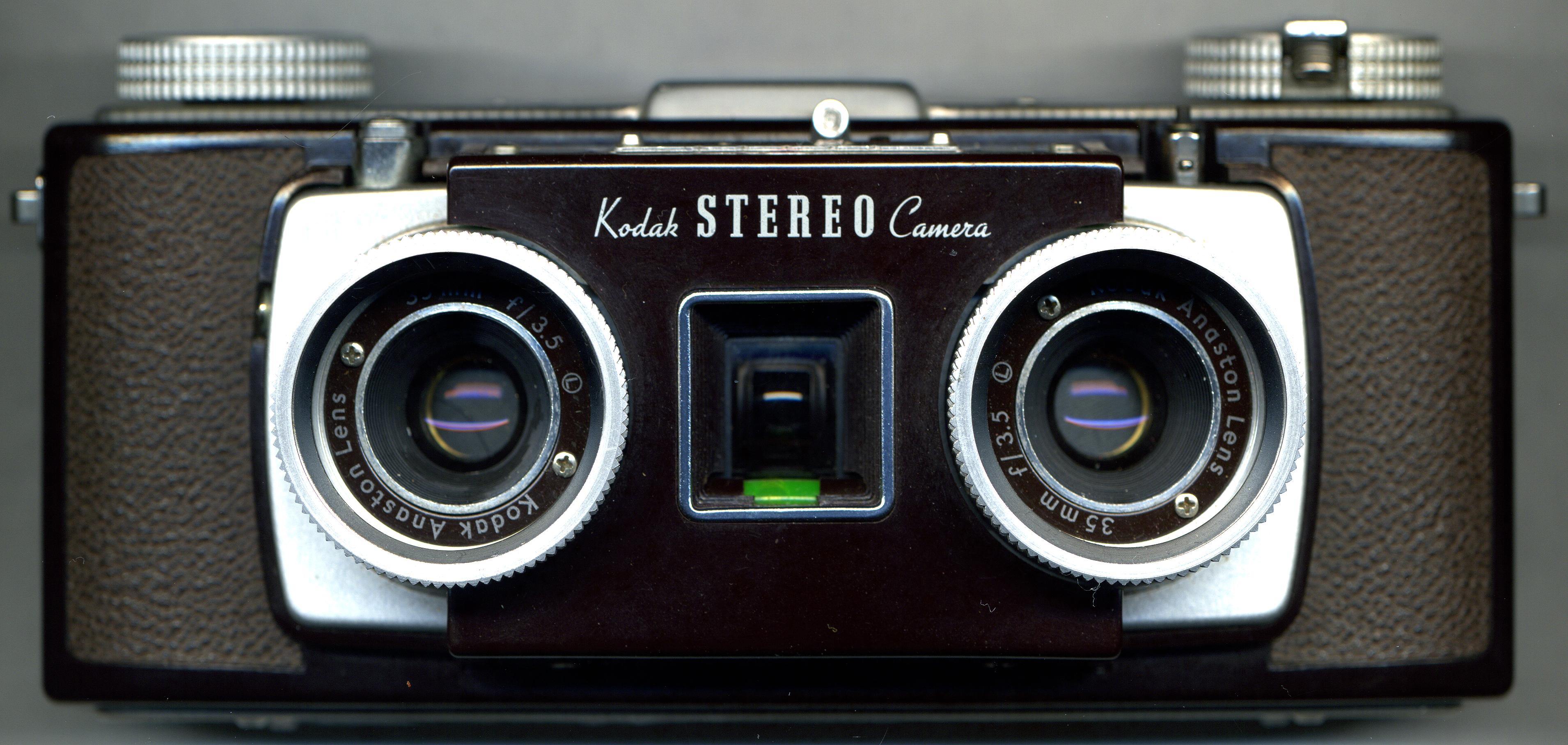 The Kodak Stereo camera, front view with lens cap removed. Because the lens cap was not permanently attached, many cameras sold on eBay will no longer have it. Note the bubble level, which is clearly visible when looking through the viewfinder.